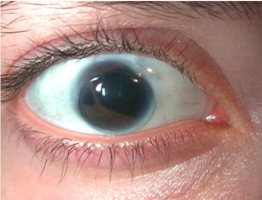 Phenotypic analysis of patient with Axenfeld syndrome: Eye imaging showing polycoria.